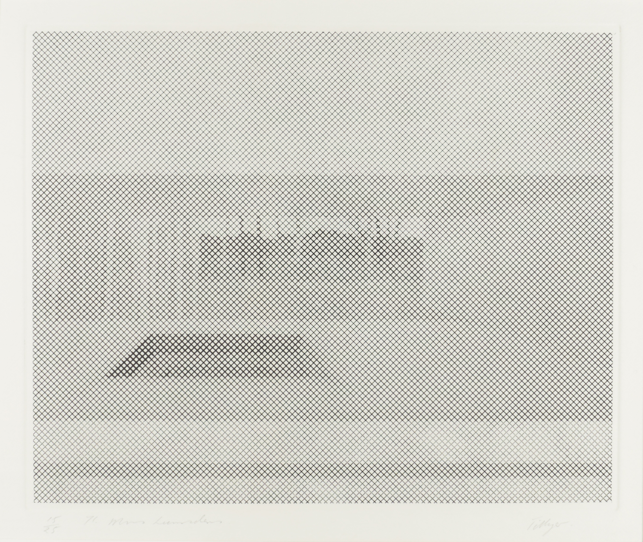 Modern Architecture